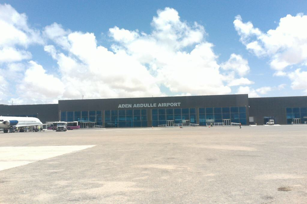 Aden Abdulle Airport from a distance.